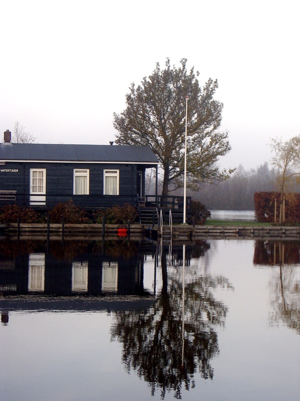 House in Loosdrechtse Plassen